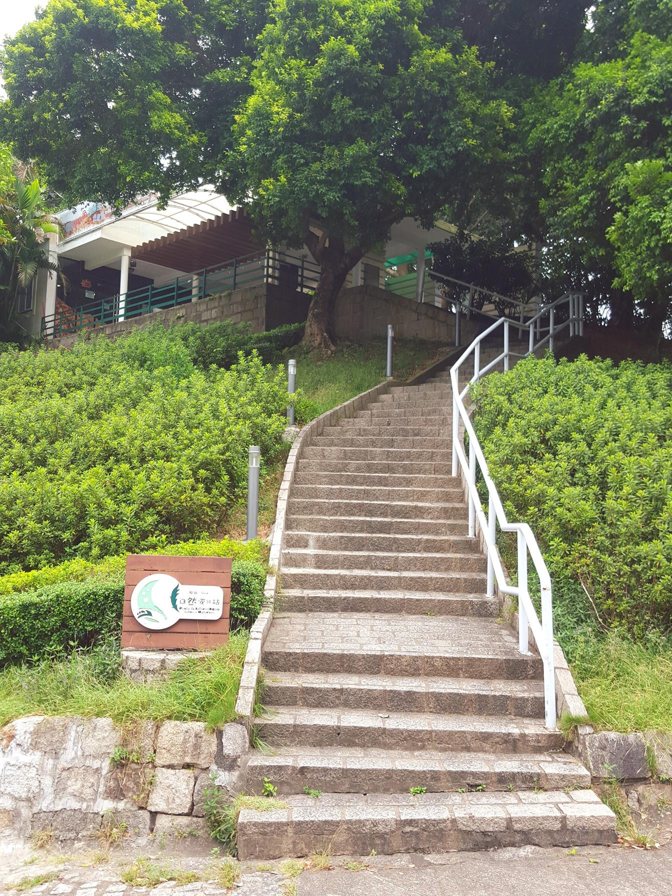 Guia Municipal Park